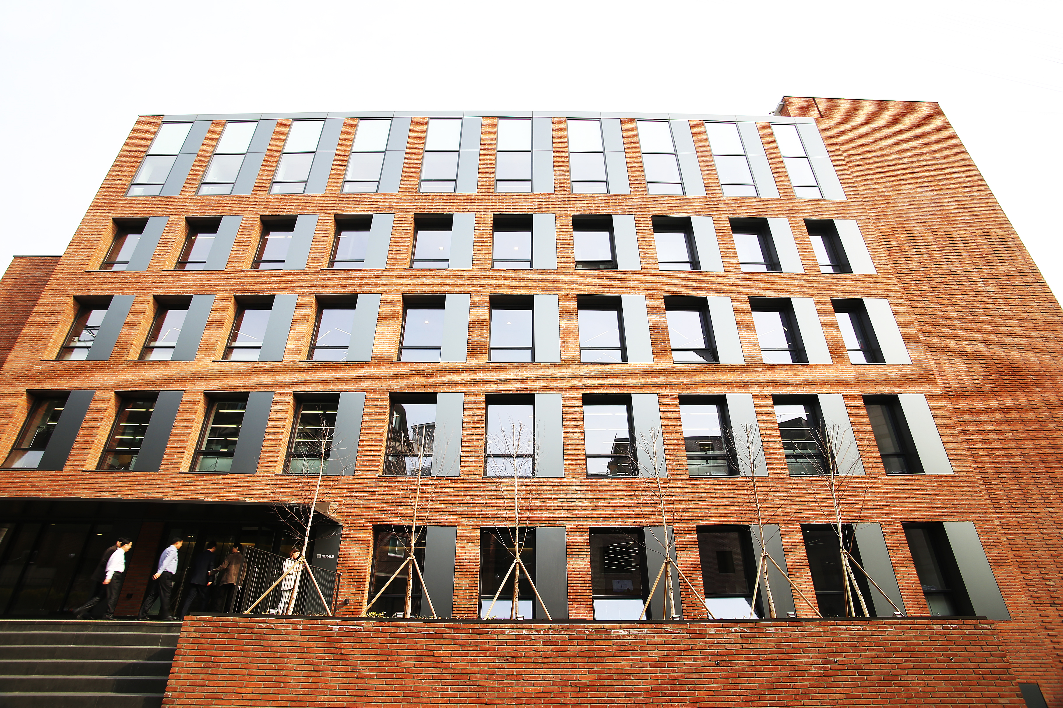 test file